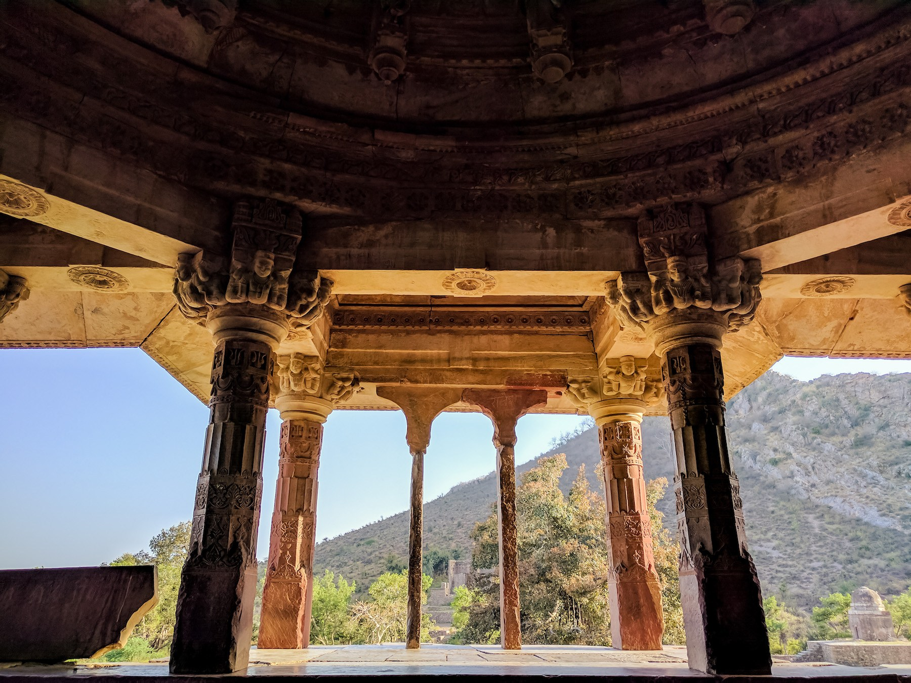 View from inside the fort